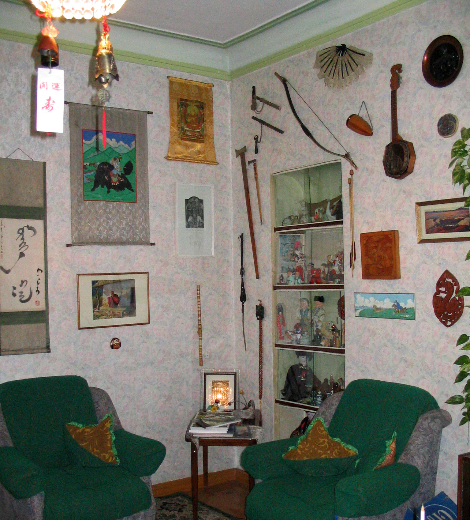 Inside of modern Buryat home with collection of scrolls and instruments/weapons from Buryatia. Taken by me 7/06, released into public domain.